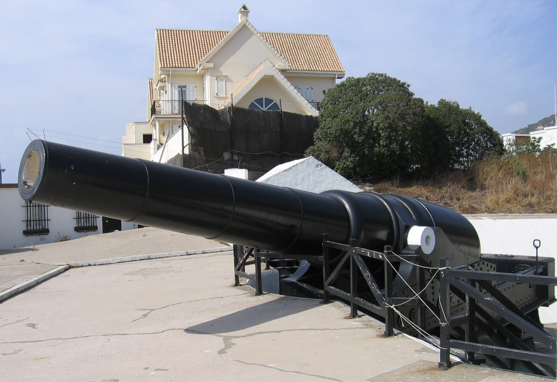 RML 17.72 inch 100 Ton Gun "Rockbuster" (built 1883) in Gibraltar